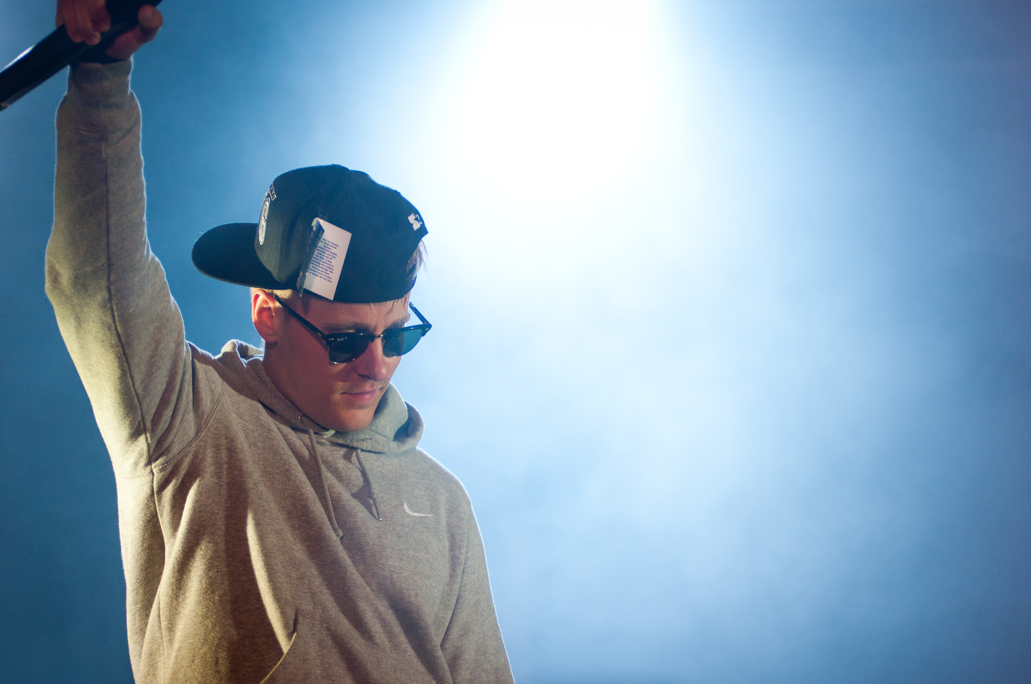 Finnish rapper Jare Brand of Jare & VilleGalle performing in Lappeenranta, Finland.